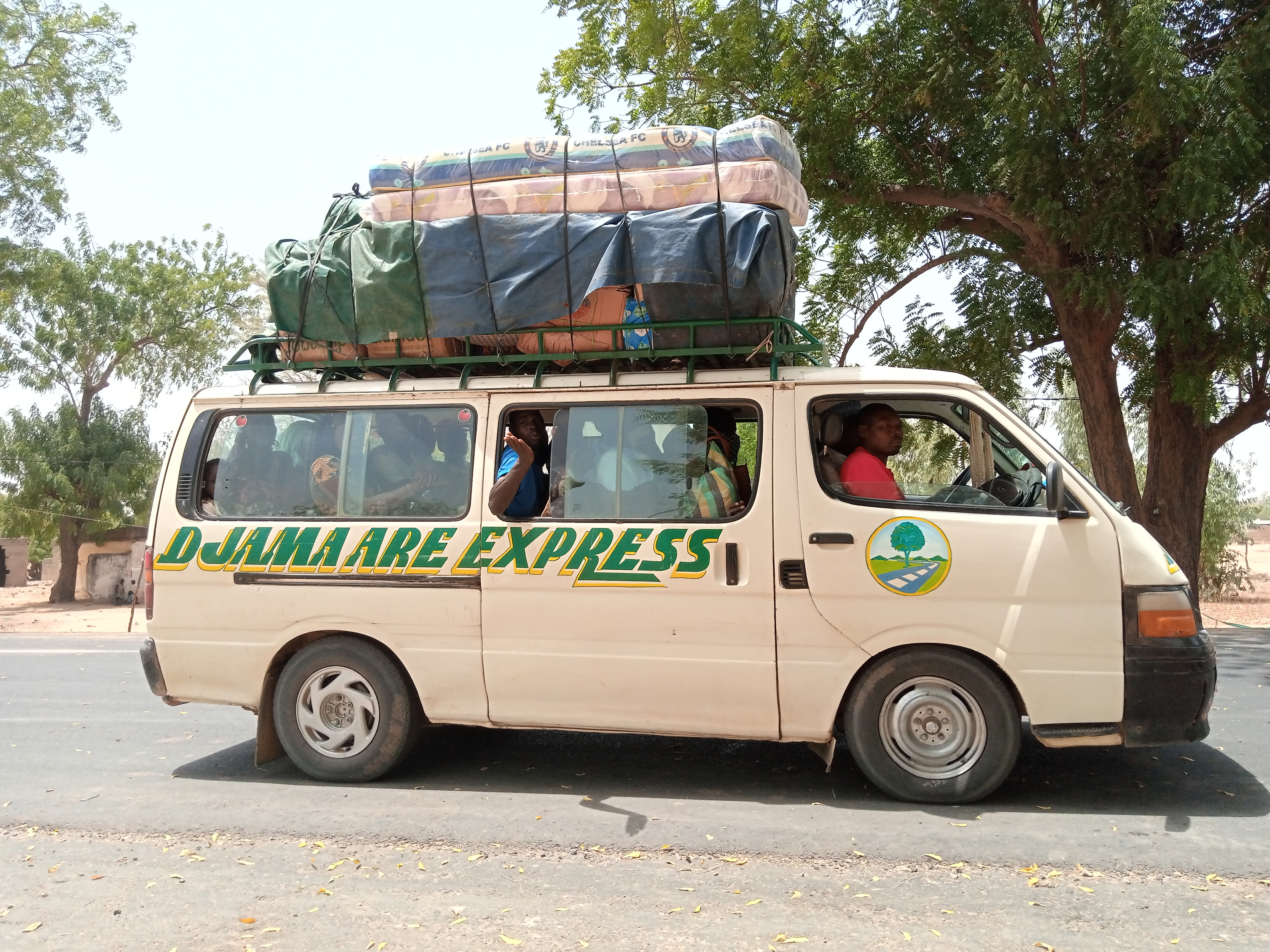 voiture de transport en commun, agence Djaare express transportant quinze personne des bagages sur la gallerie de la voiture. This is an image with the theme "Africa on the Move or Transport" from: Cameroon